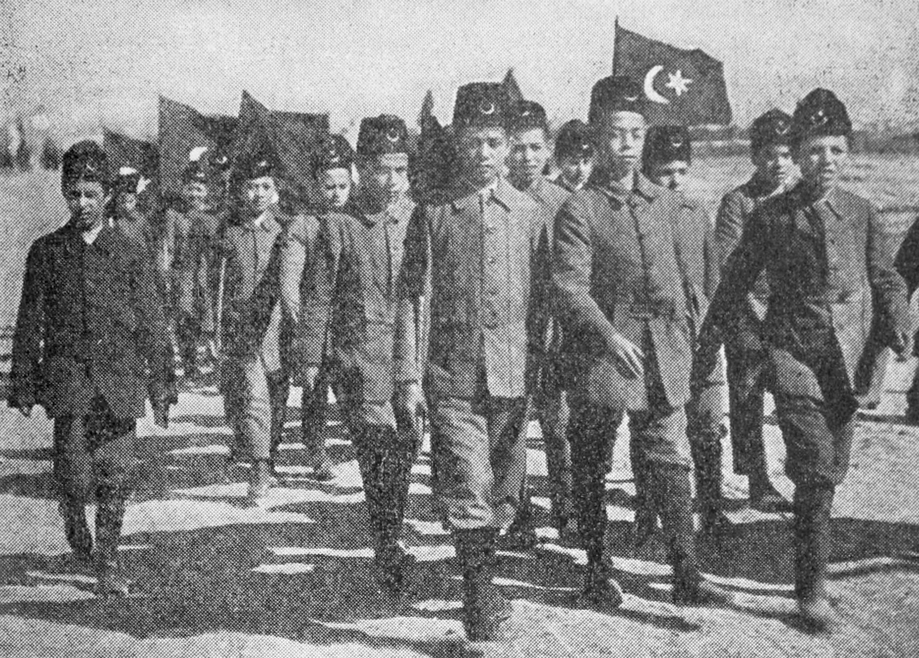 Turkish Boy Scouts, World War I era Title: A world in perplexity Year: 1918 (1910s) Authors: Daniells, Arthur Grosvenor, 1858- (from old catalog) Subjects: Bible World War, 1914-1918 Publisher: Washington, D.C., New York city (etc.) Review and herald publishing assn Text Appearing Before Image: ' Text Appearing After Image: Photo, Boston Photo News Co. Turkish Boy Scouts THE EASTERN QUESTION It is claimed by many of the ablest writers on pres-ent-day political and historical problems, that the great war which broke upon the world in 1914 is a continua-tion of the struggles of the European nations over what has long since been known as the Eastern Question.Dr. Marriott, in his monumental work of 1917 on the Eastern Question, says: The Near Eastern Question may be defined as the problem of filling up the vacuum created by the grad-ual disappearance of the Turkish Empire from Europe. Once more the problem of the Near East, still un-solved, apparently insoluble, had involved the world in war. In an unsolved Eastern Question the origin of the war is to be found.— The Eastern Question/ pp,3, 426, 444. Professor Seymour, of Yale, makes the following statement regarding the Eastern Question: 9^ 94 A World in Perplexity In the sense in which the term is generally used,it means the problem or group of problems that res